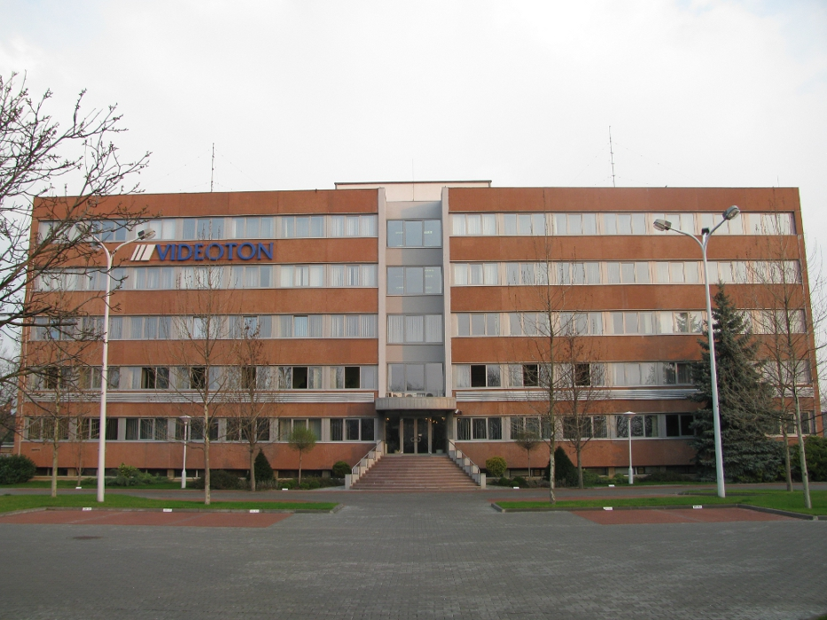 Videoton Headquarters in Székesfehérvár, Hungary